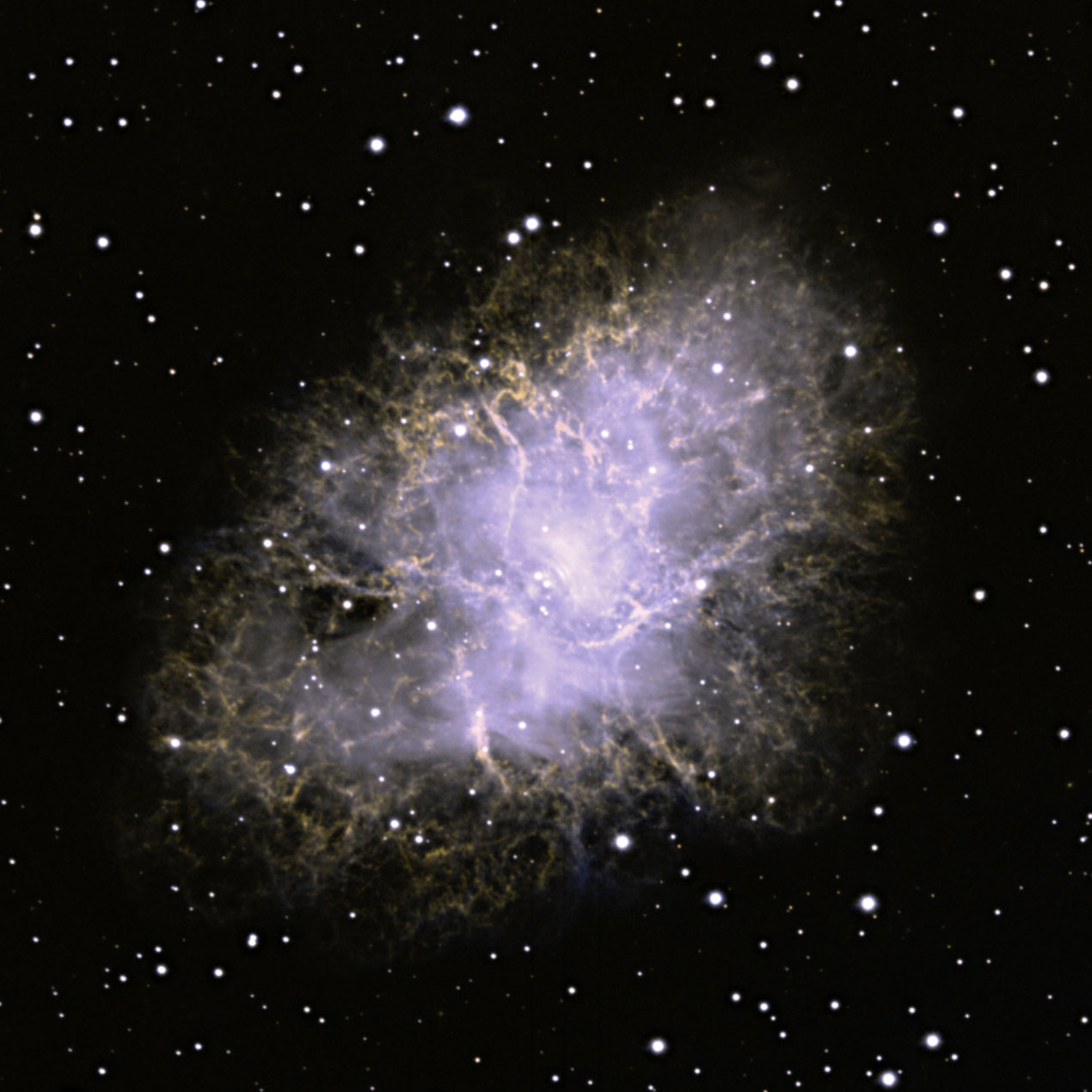 The Crab Nebula (Messier 1) is a well-known supernova remnant (the remains from massive star whose life ended in a massive explosion). This false-color image of the Crab Nebula was taken at the Vatican Observatory on Mount Graham using Sloan u’, g’, and r’ filters. The yellow filaments on the outside of the remnant are primarily ionized hydrogen gas and show up in both the u’ and r’ filters. The gas in the interior of the nebula is heated by the neutron star left by the explosion and its glowing light is visible in all the filters. While the neutron star itself is too faint to be see in the visible, the glowing disk of gas and debris that surround it also shows up quite clearly in the g’ filter (blue-white colors). One of the jets thrown off by the accreting neutron star is also partially visible in the g’ filter to the lower-left of the accretion disk.